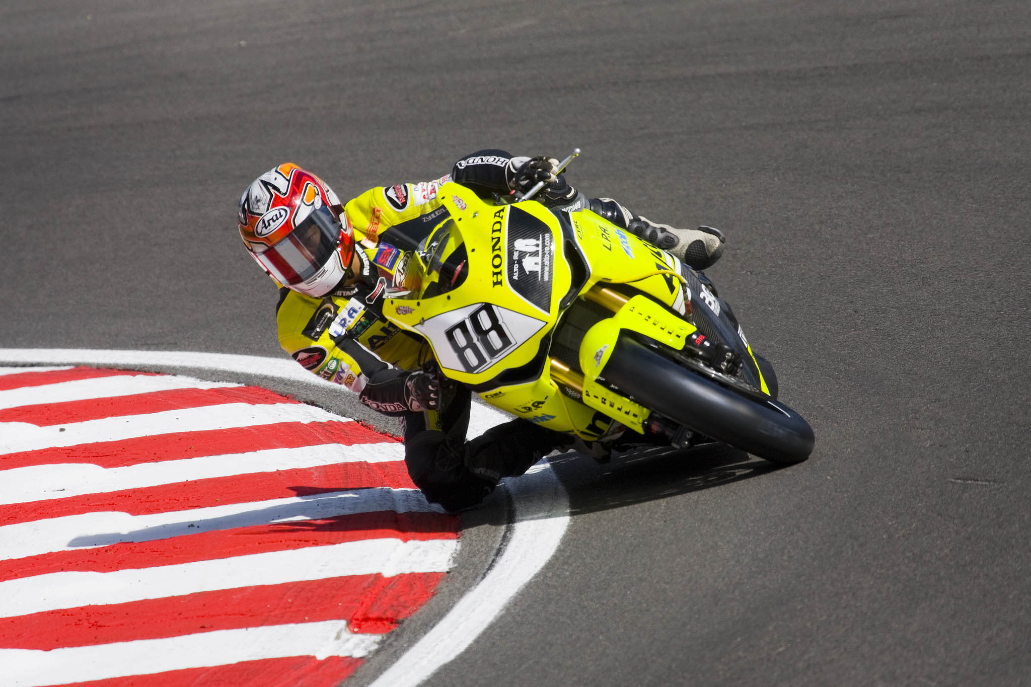 Brands Hatch World Superbike Meeting August 2008 Practice Day. Druids Bend.